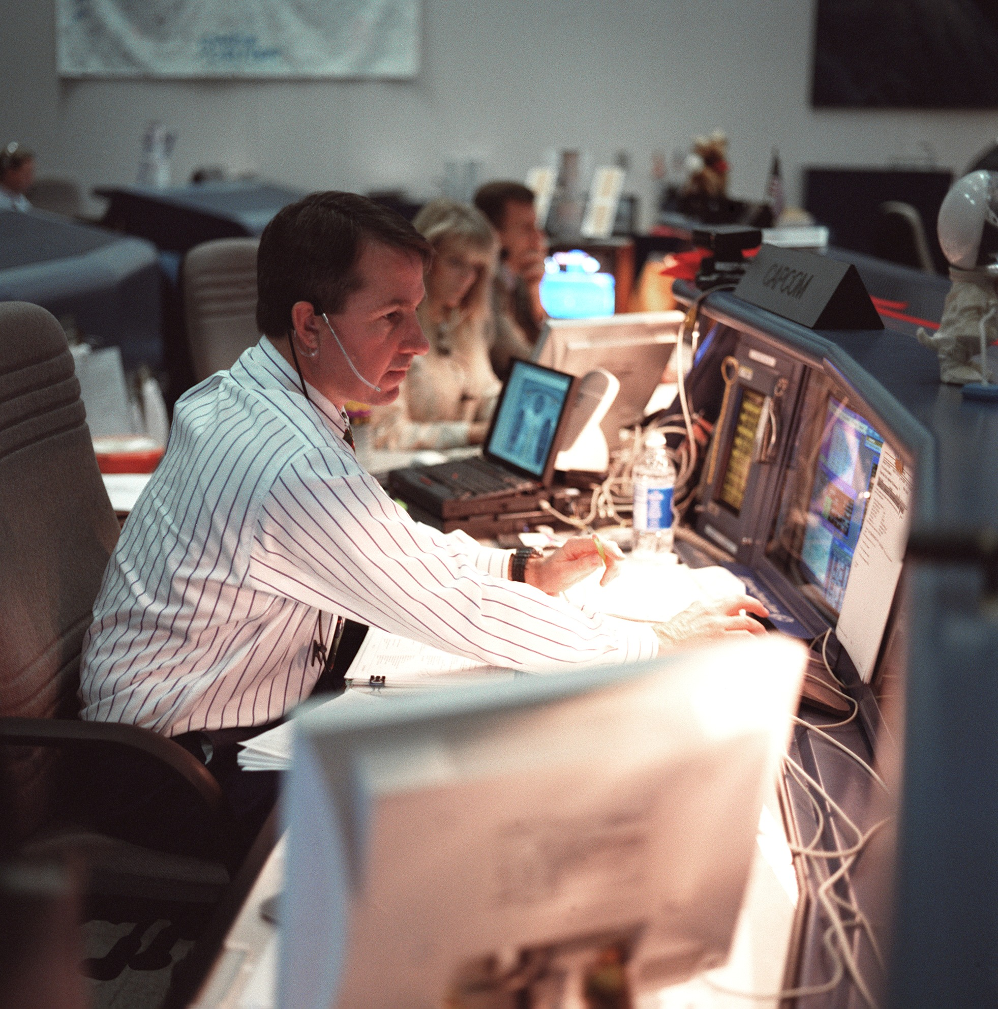 Astronaut Stephen K. Robinson, spacecraft communicator (CAPCOM), monitors a television downlink from the Space Shuttle Discovery during the first space walk for STS-103. Linda Ham, flight director, is in the background.